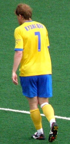 Evgeny Kuznetcov in action for FC Luch-Energia